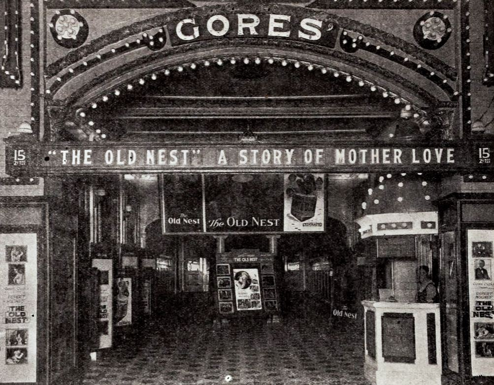 Gore's Theater in Los Angeles showing the American drama film The Old Nest (1921), on page 56 of the December 31, 1921 Exhibitors Herald.